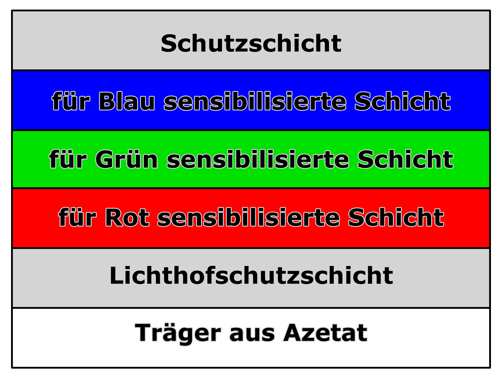 technicolor, color film layers